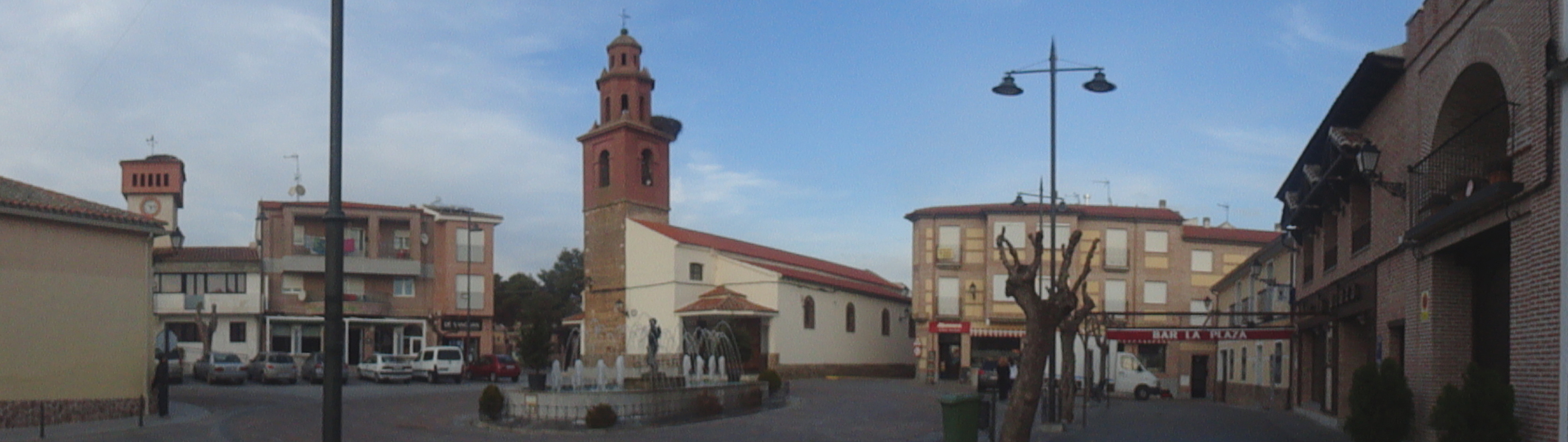 general view of Cazalegas main square